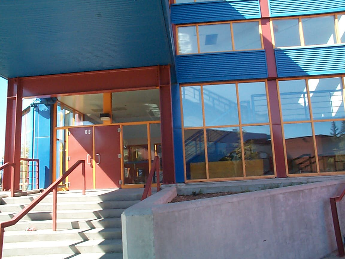 Lester B. Pearson High School is a public senior high school operated by the Calgary Board of Education. Its address is 3020 - 52 Street N.E., Calgary, Alberta, Canada, T1Y 5P4.